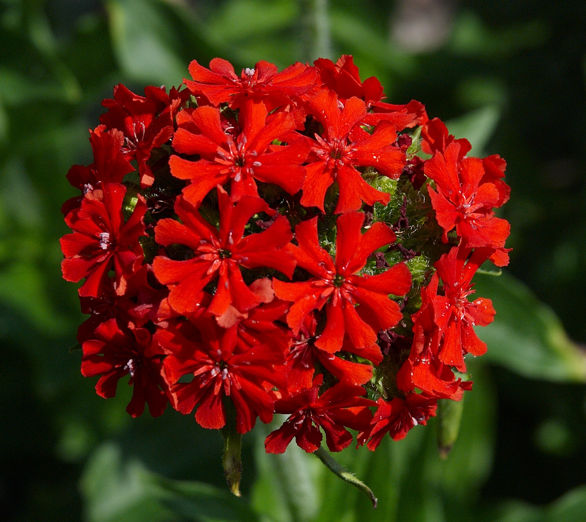 Maltese Cross, Jerusalem Cross, Dusky Salmon, Burning Love, or Nonesuch